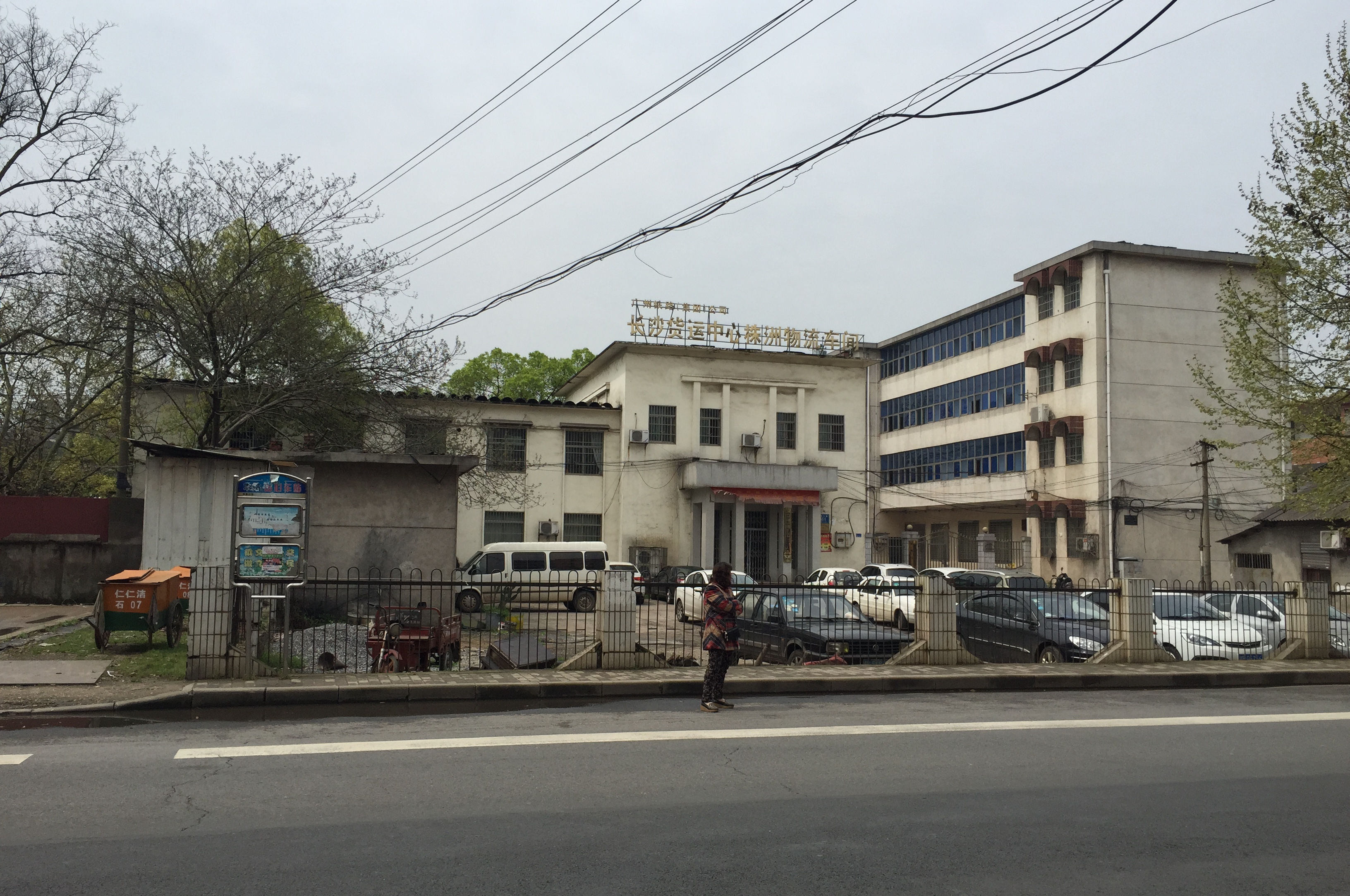 Taken at Renmin North Rd.